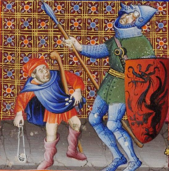 A page of the Catalan book Breviari de Martí representing David and Goliath